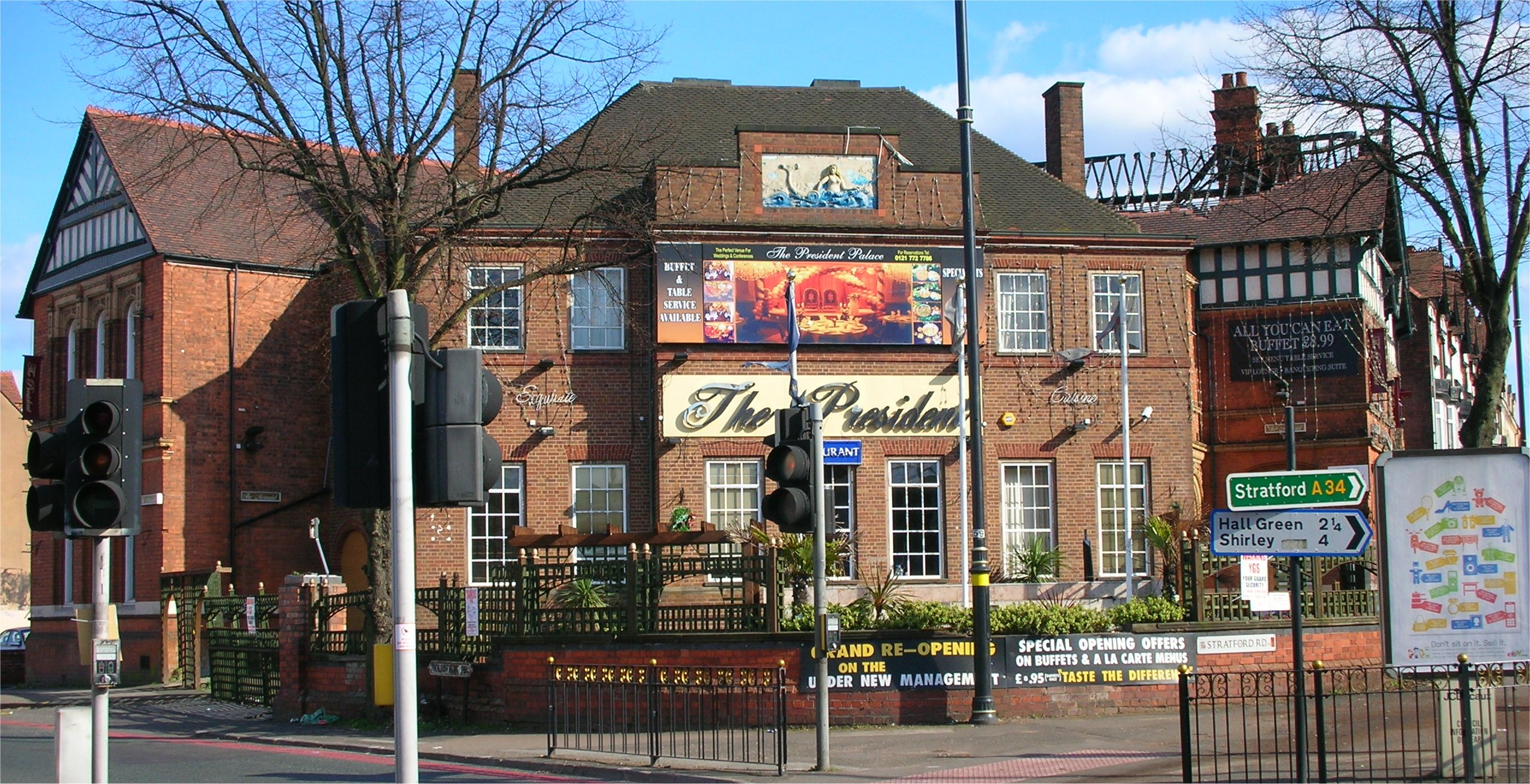 The Mermaid pub, now called The President, Stratford Road, Sparkhill, Birmingham, England. Built as a public house, with pub sign, c 1960, sculpted by Alan Bridgwater (attributed) and other carvings by William Bloye. Damaged by fire. Observed January 2015: the mermaid sign/sculpture is missing (date?) from the façade. Fire damage has been repaired.